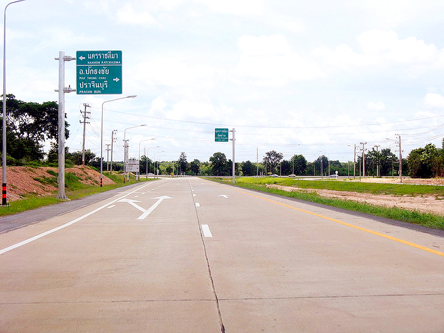 Ringroad290south